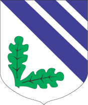 Coat of arms of Rakvere vald Estonia